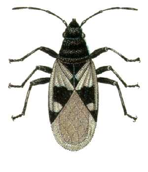 Cottonseed bug. Oxycarenus luctuosus (Hemiptera: Lygaeidae)